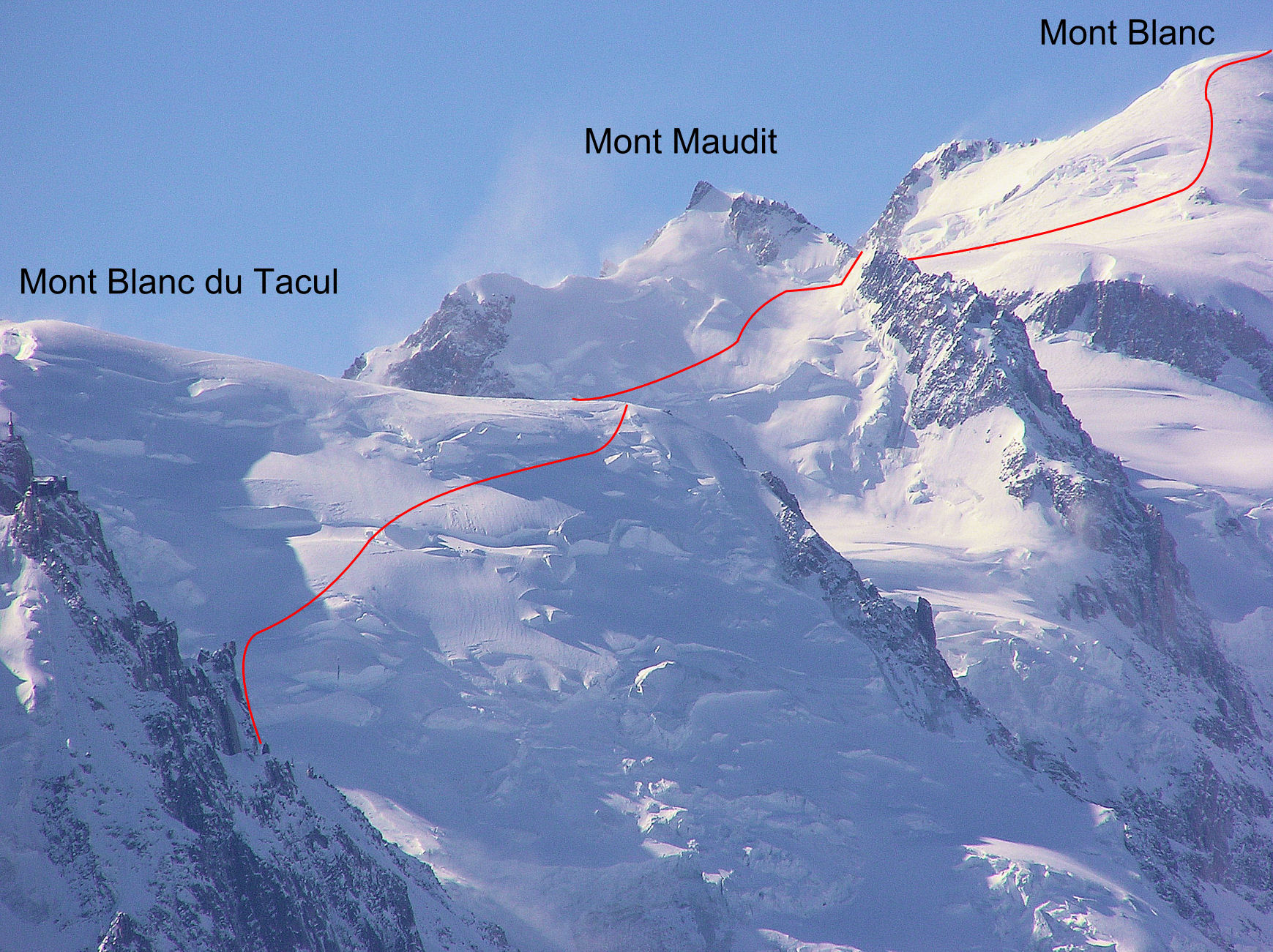 Mont Blanc - Three Mont Blanc route